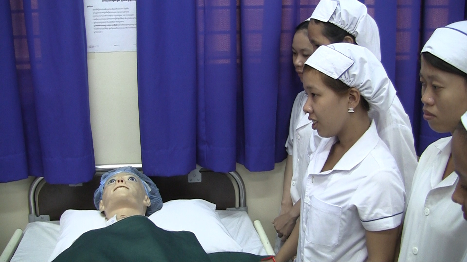 Australian-funded Cambodian Midwife Project at the Technical School for Medical Care in Phnom Penh. Photo: Christoffe Gargiulo